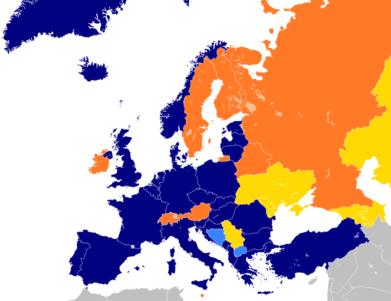 NATO 2017 enlargement